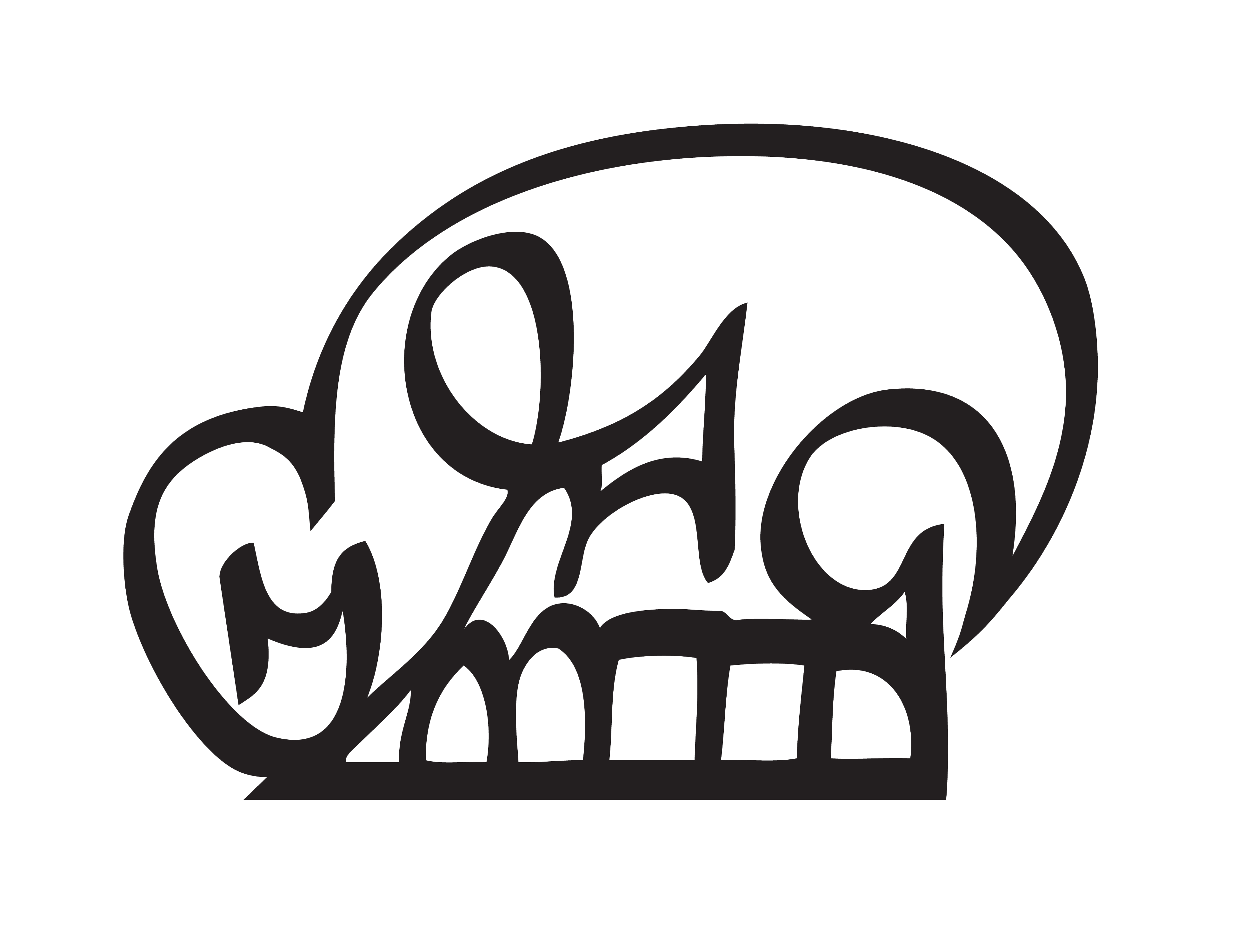 Artist Katsu's single stroke skull.